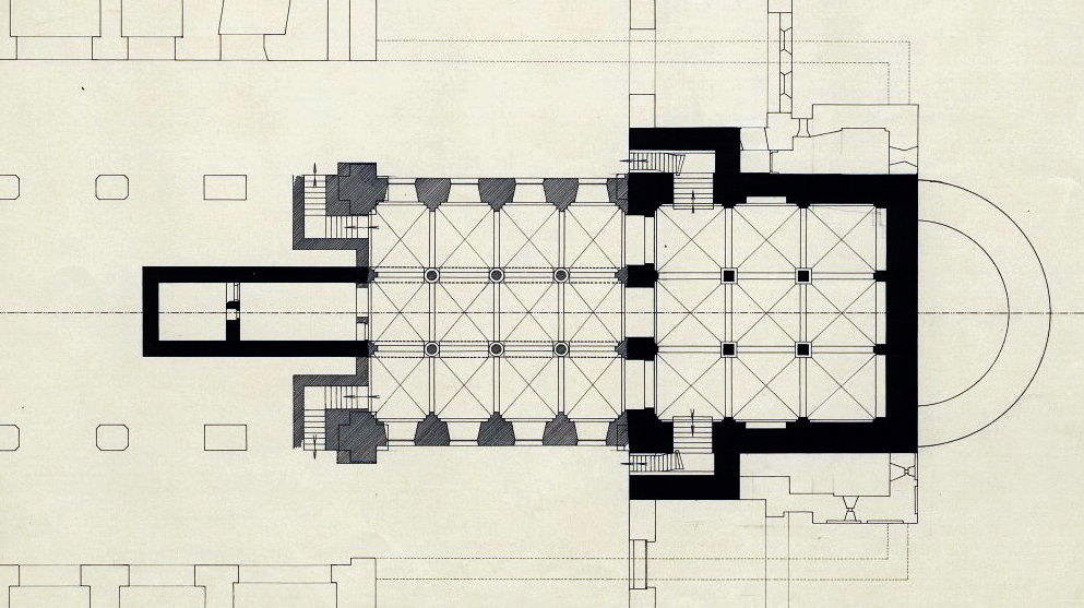 Plan of the crypts of the Basilica of Saint Servatius in Maastricht, the Netherlands. Situation around 1880. The central crypt and the East crypt are still connected here.